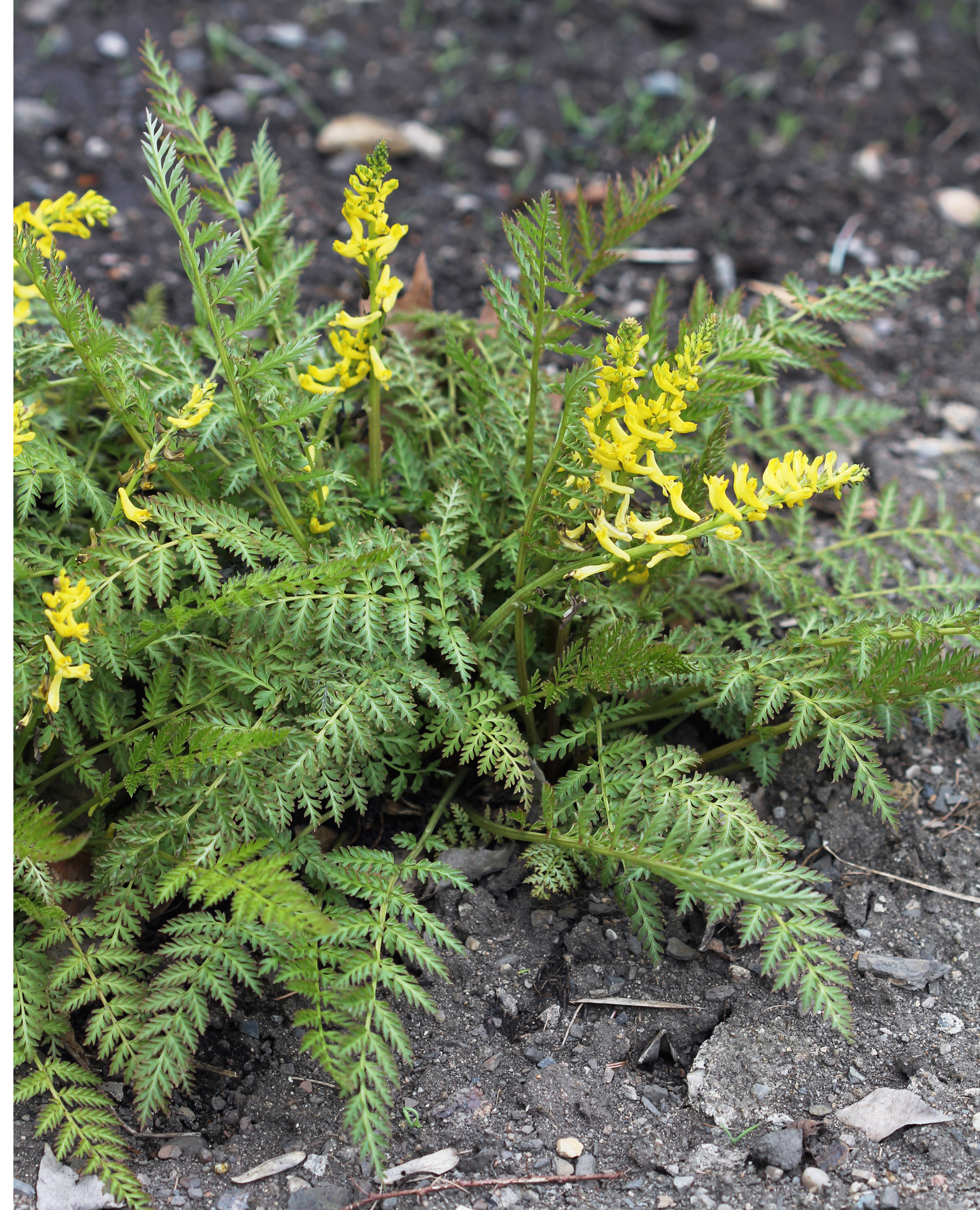 Flowering plants Corydalis heterocarpa, (Corydalis heterocarpa) from the Botanical Gardens of Charles University, Prague, Czech Republic